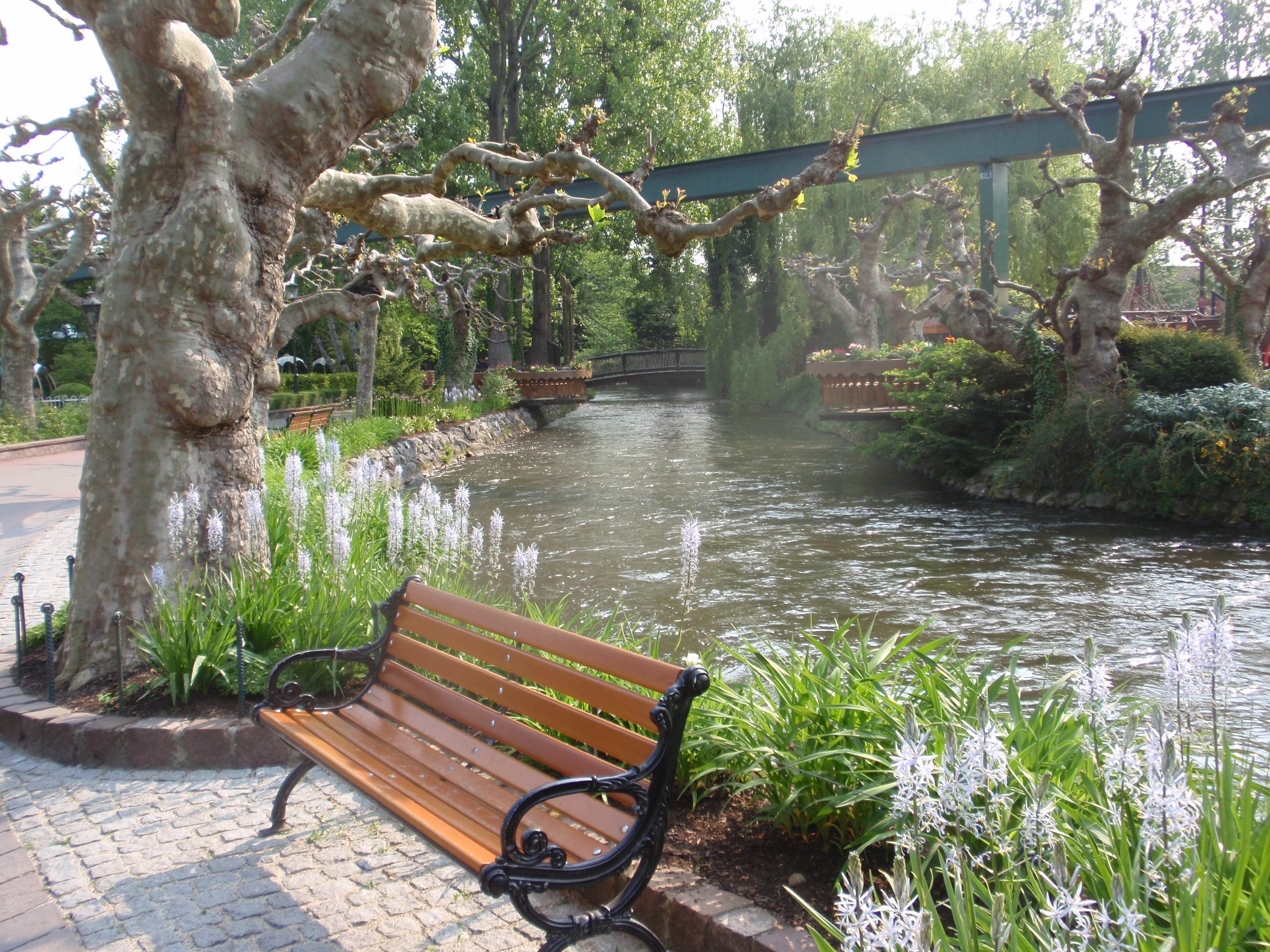 the small river Elz in the Europa-Park Rust